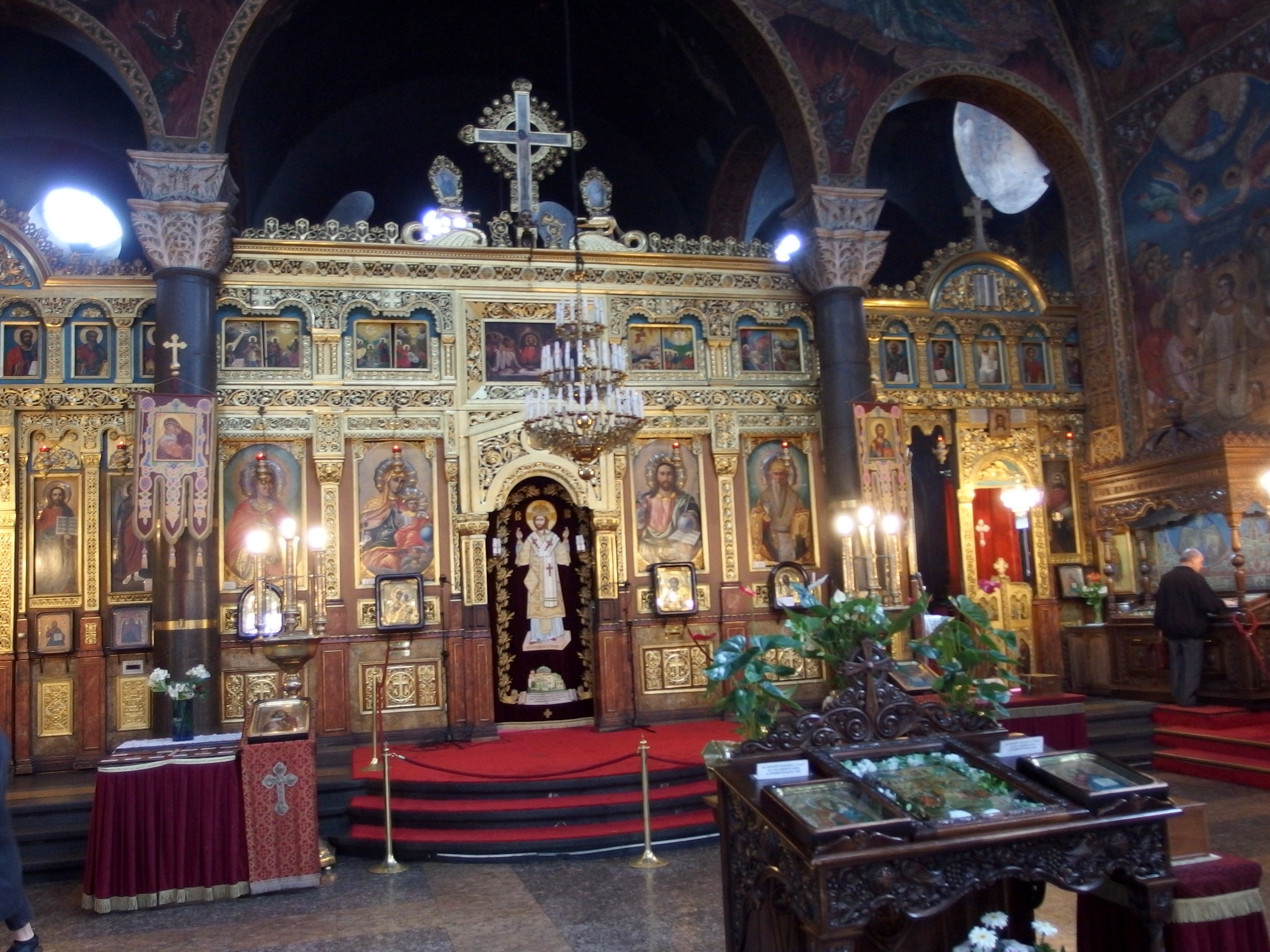 2014-06-16 in Sofia.